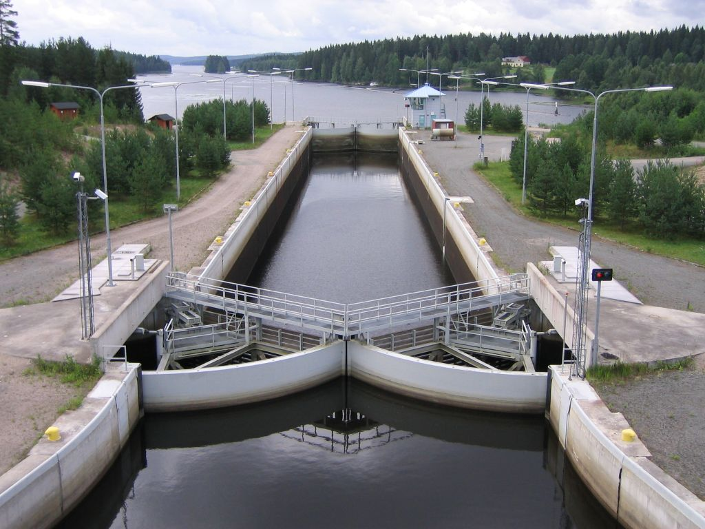 Kapeenkoski Lock of Keitele–Päijänne canal in Äänekoski, Finland